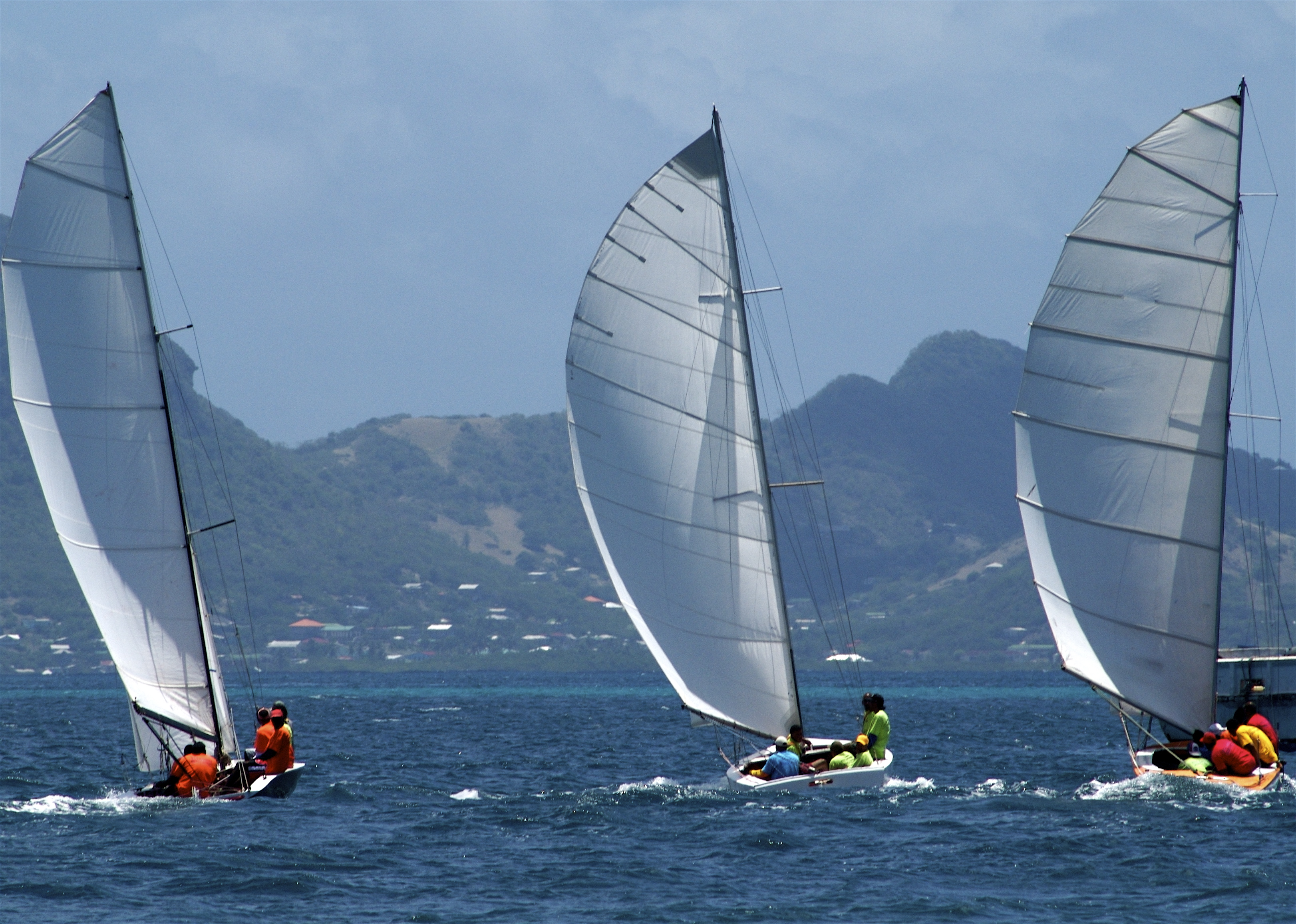 A picture of three boats participating in the Union Island Sailing Regatta May 2007 - showing the south shore Union Island in the background. Union Island is part of Saint Vincent and the Grenadines. Picture by Iain Grant, May 2007. Used in Union Island Wikipedia citation